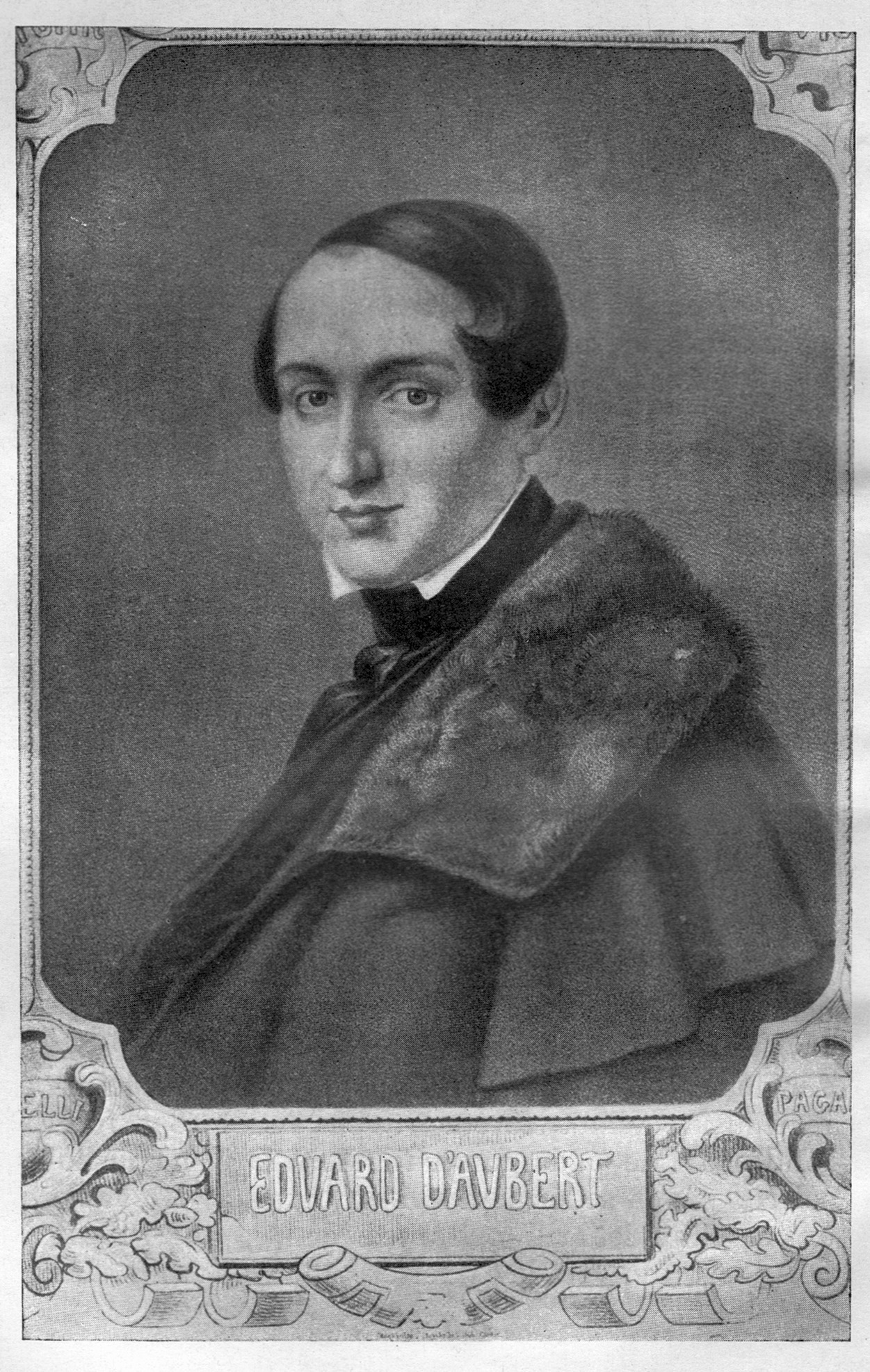 Edvard d'Aubert. After an oil painting by V. Wohlfahrt. Image from Nils Personne: Svenska Teatern VIII (1927).